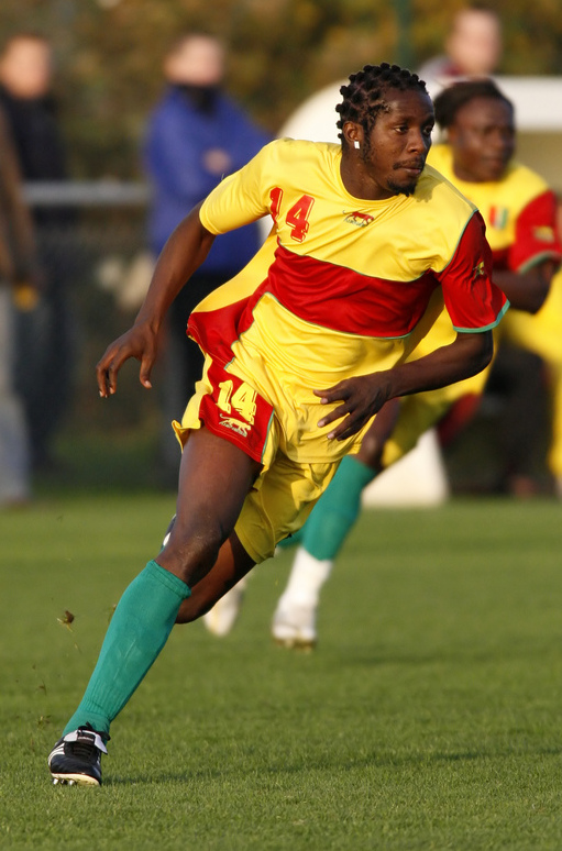 Sambégou Bangoura, Guinean football player, during Guinean national team friendly match against the Stade Rennais youth team.